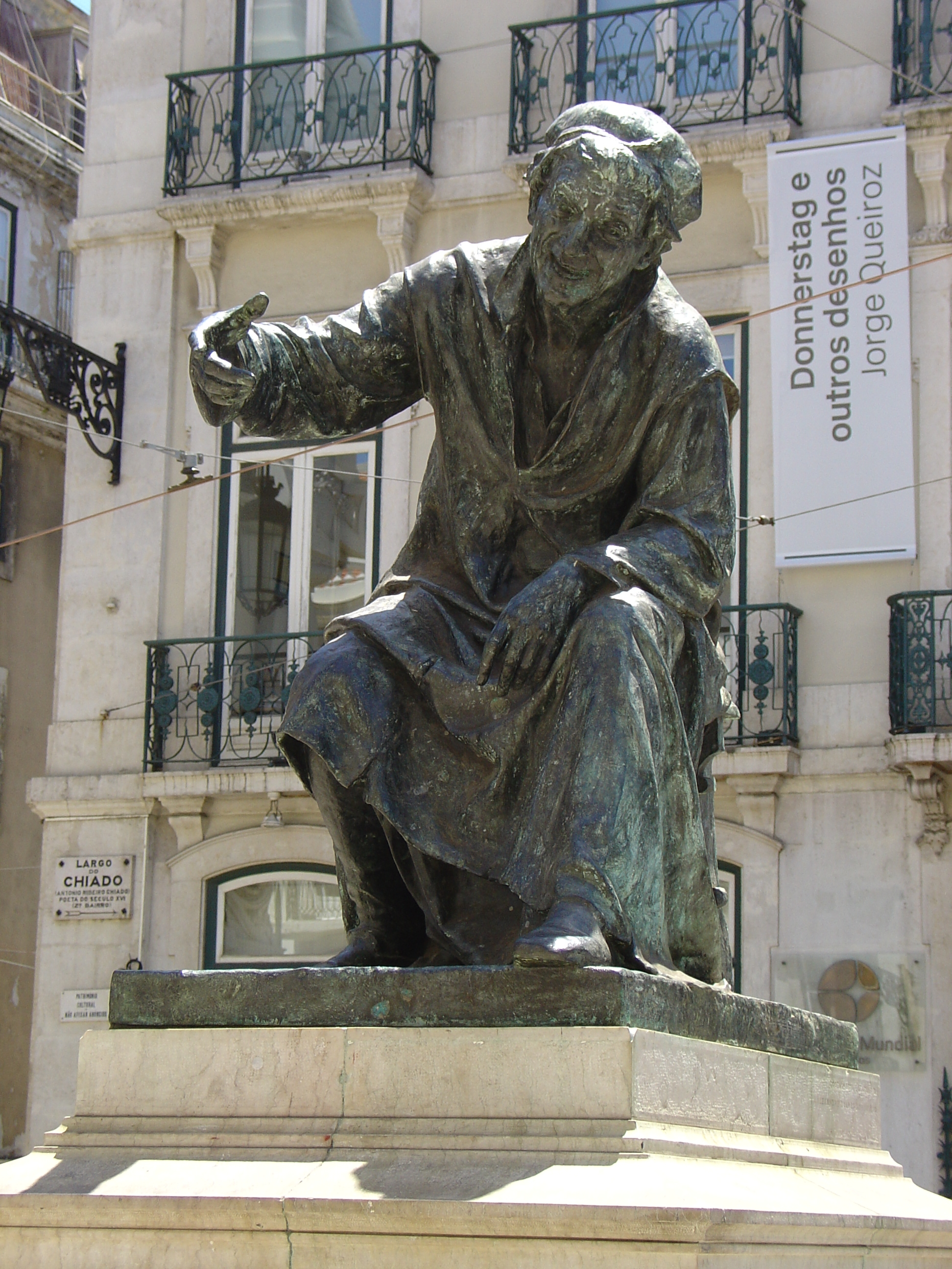 Statue of António Ribeiro Chiado. Largo do Chiado, Lisbon